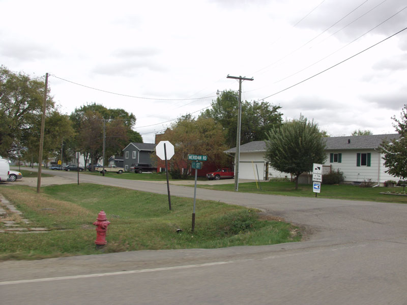 Mapleton, North Dakota. From .